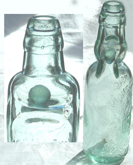 Photo shows marble stopper, and pinched design of bottle to prevent marble blocking the neck when the drink was poured.